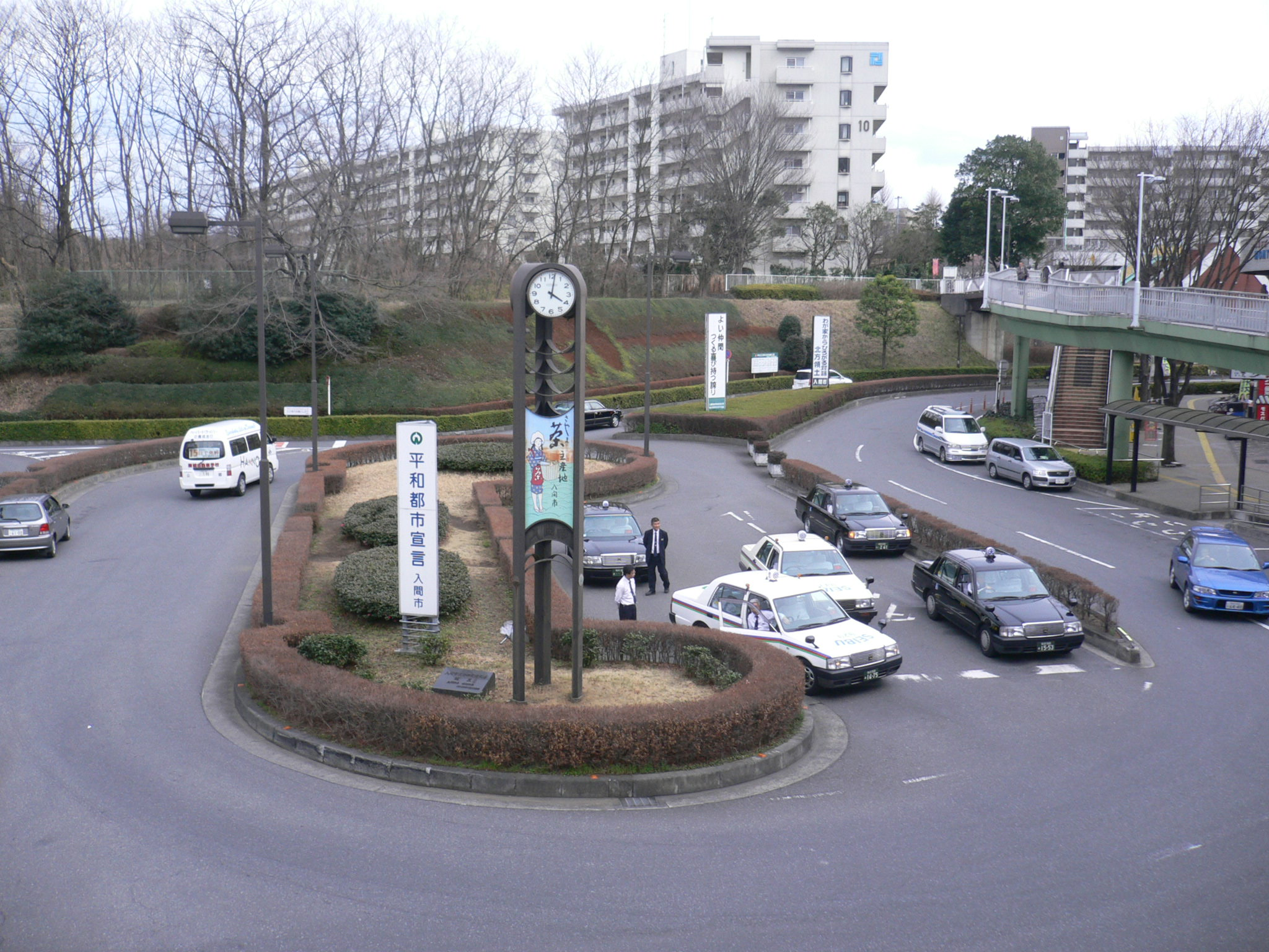 Irumashi Station North Gate (Iruma City Station/入間市駅), Iruma C, Saitama P.